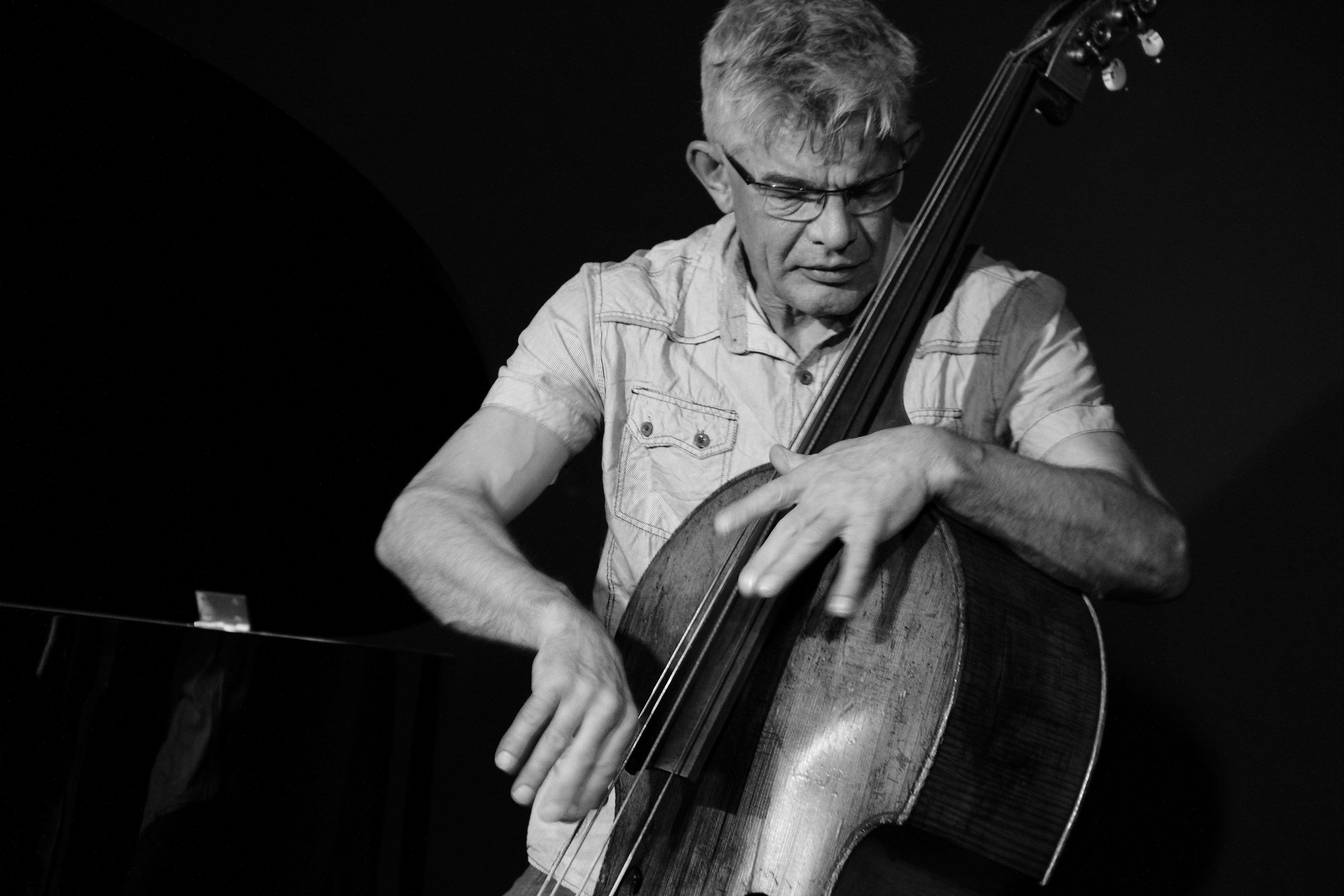 Concert of the quartet of Tony Buck (dr), Wilbert de Joode (db), Frank Gratkowski (cl, sax) & Achim Kaufmann (p) on 11.26.2014 at KULT, Niederstetten.